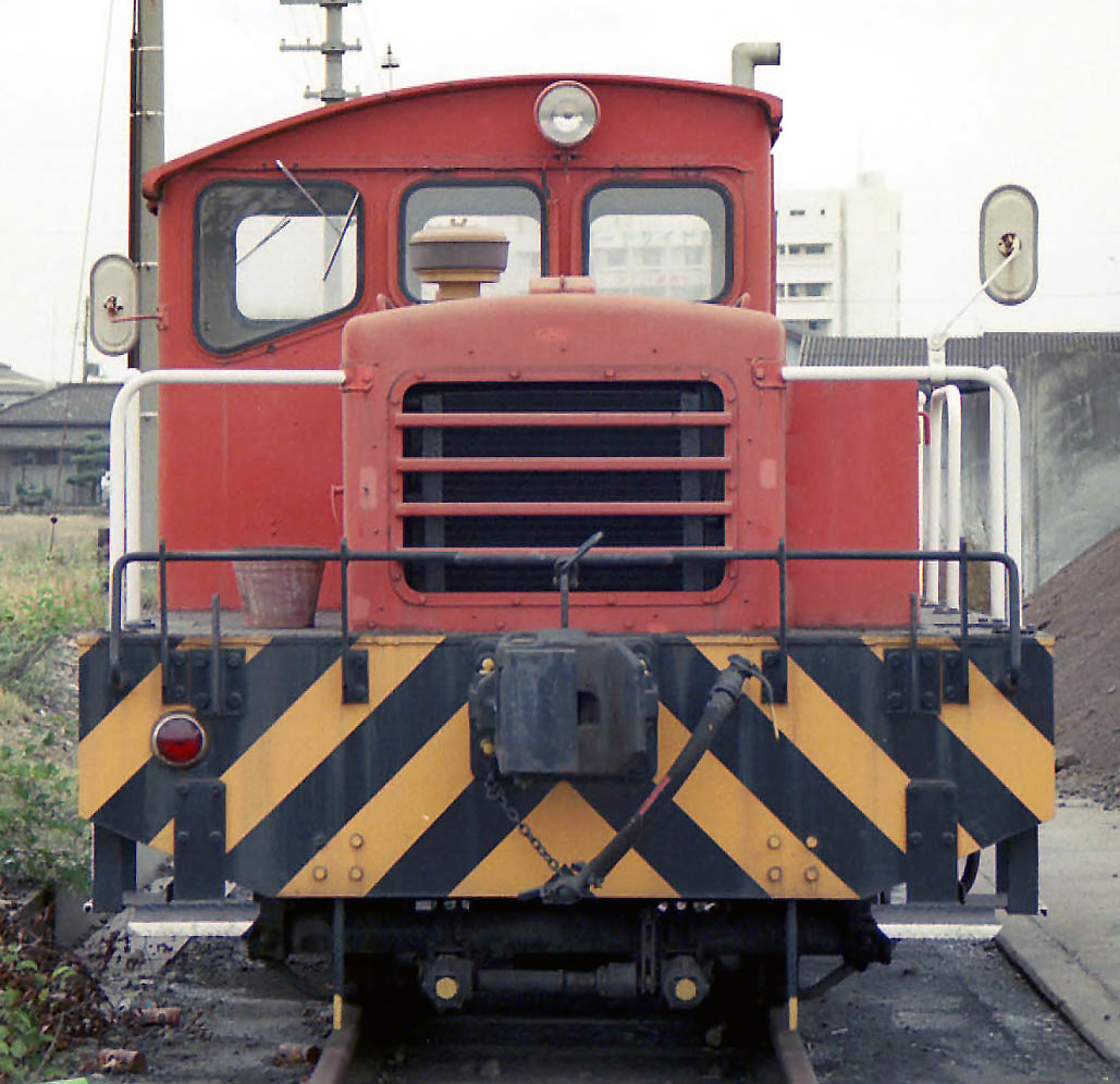 JNR Type F6 10t Diesel Switcher at JNR Shikama-Koh Station